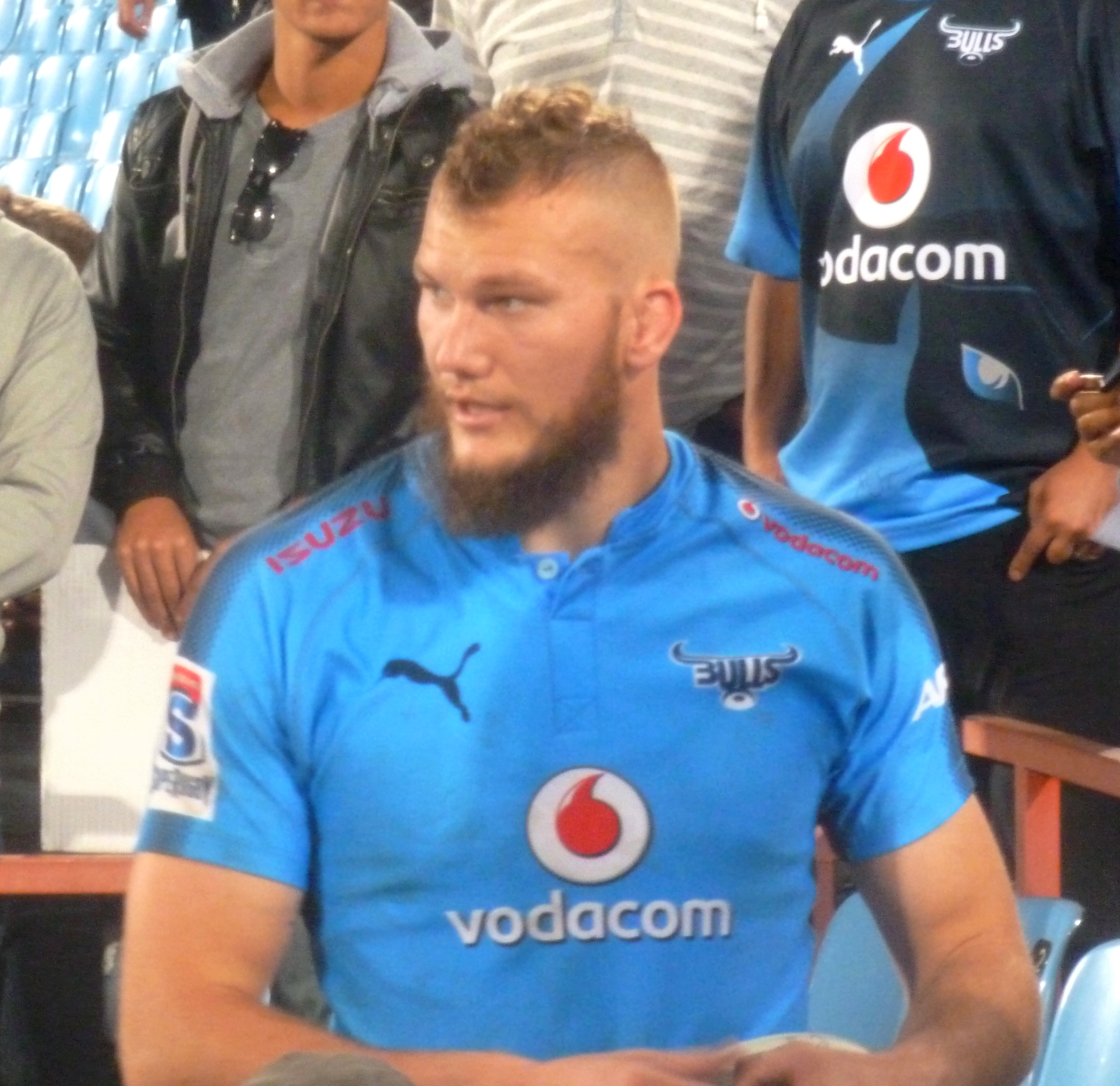 RG Snyman after the Bulls vs Crusaders game at Loftus Versfeld, Pretoria